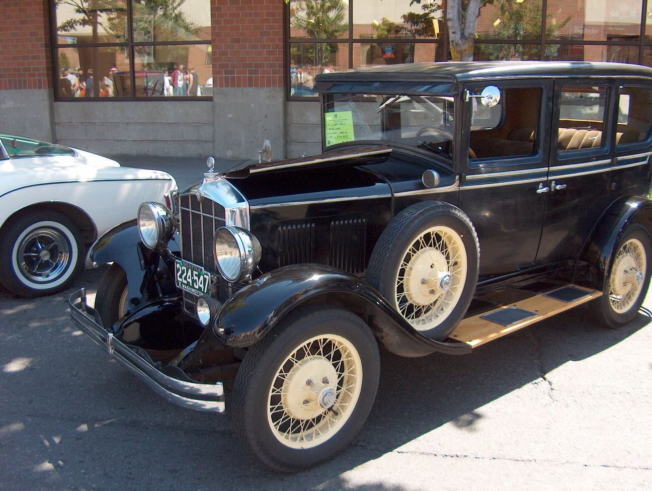 1929 Durant Model 60 sedan, taken at the Greenwood Car Show in Seattle, Washington.